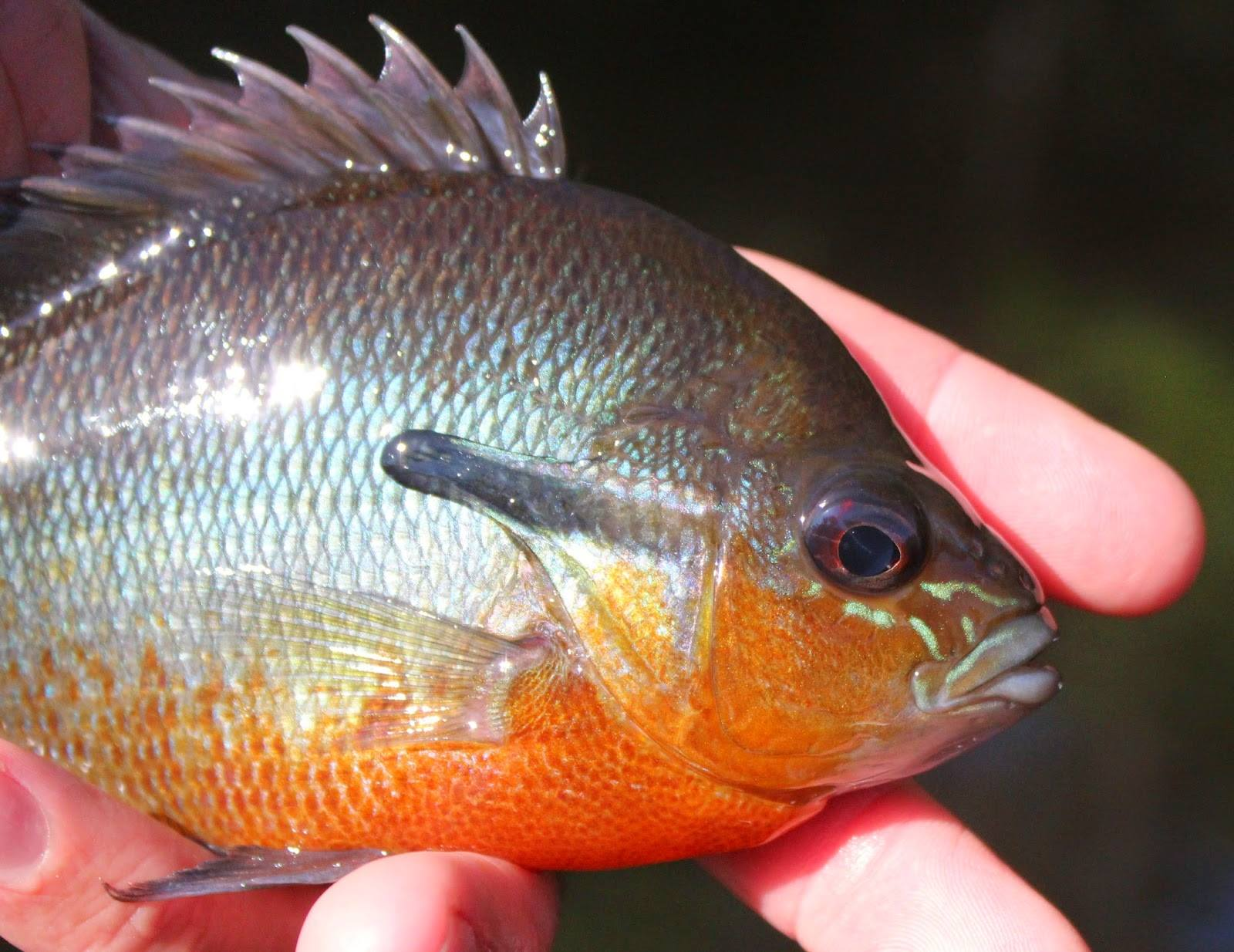 Redbreasted Sunfish - Lepomis auritus from Maryland